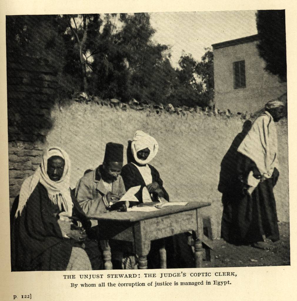 Three men sitting behind a table next to a wall. A fourth man stands to the right.